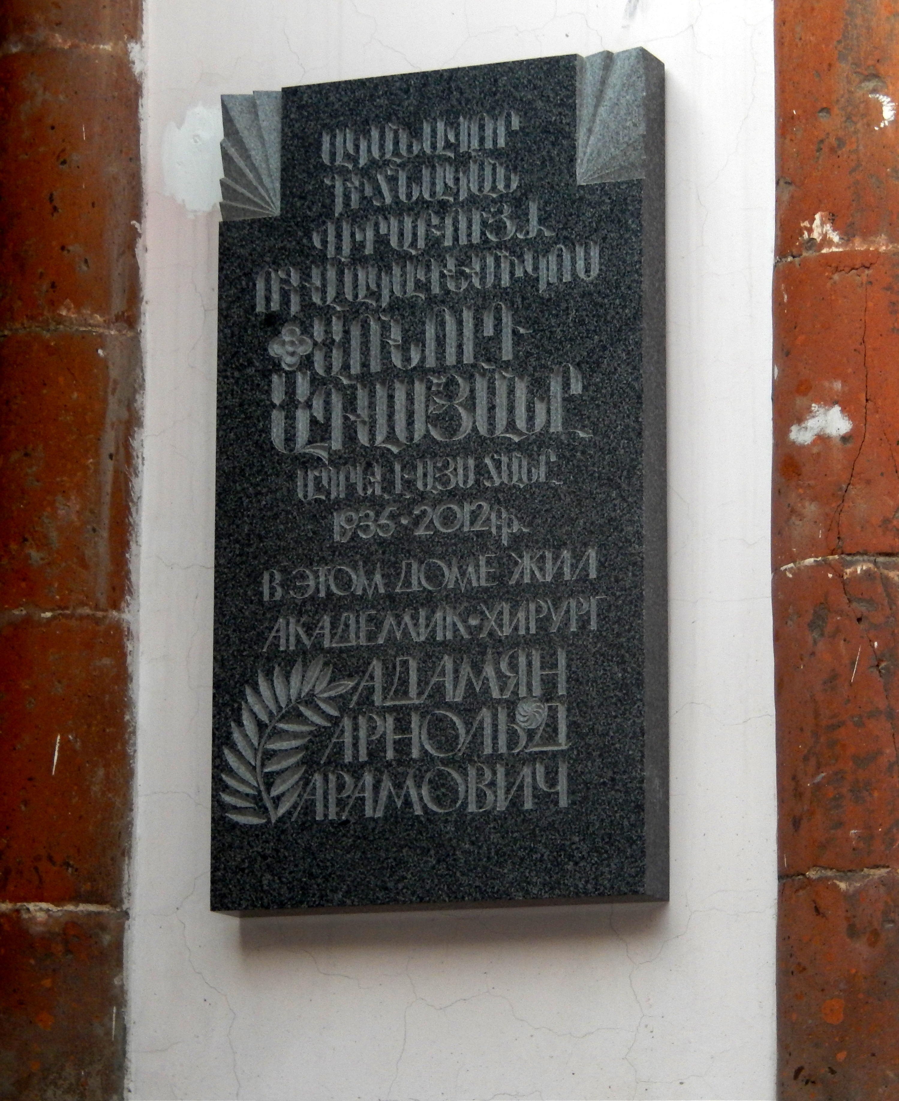 Plaque for Arnold Adamyan on Ghazar Parpetsi street, Yerevan